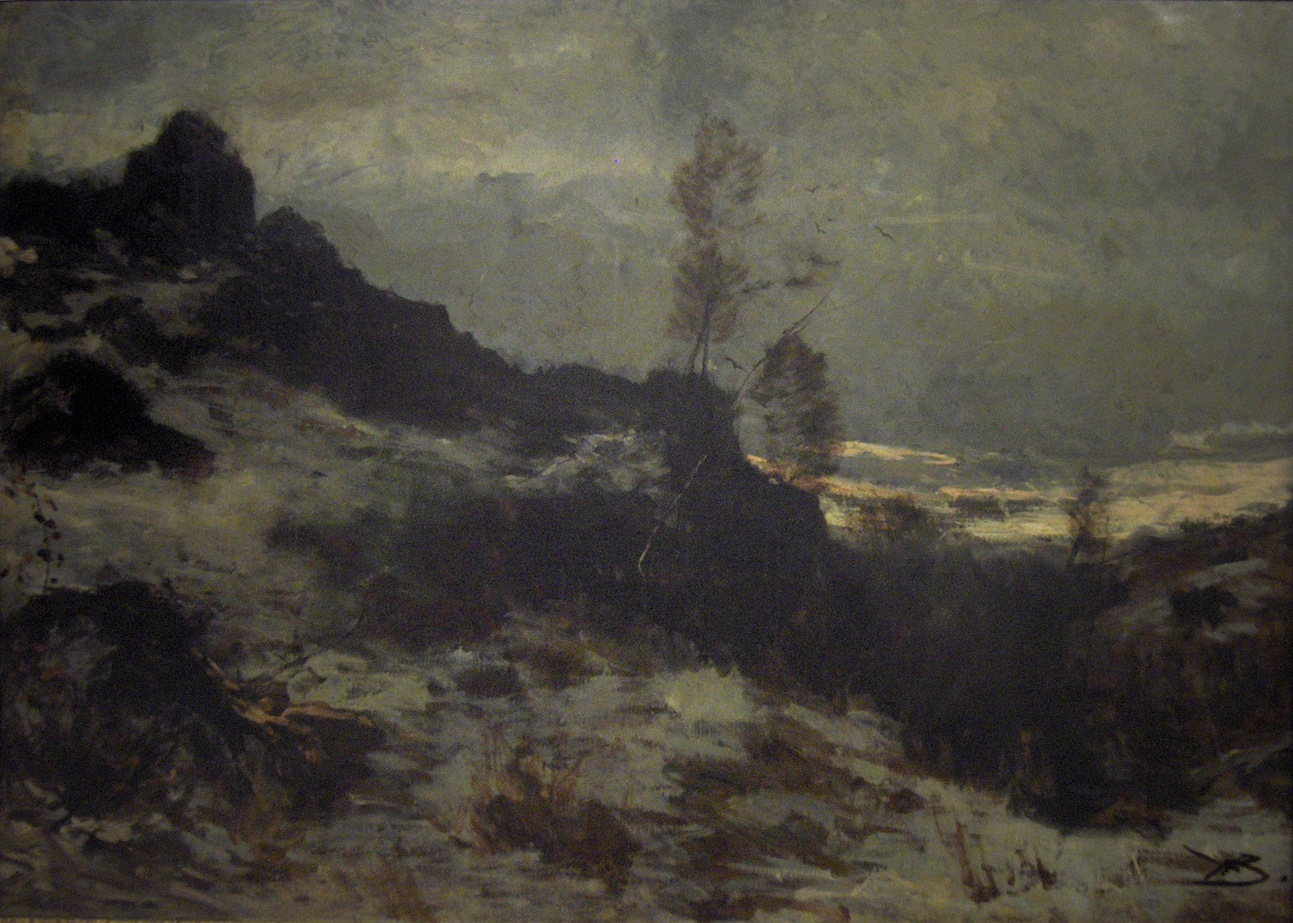 "Dusk, winter" (1871) by Hippolyte Boulenger (1837-1874) Royal Museum of Fine Arts, Brussels, Belgium